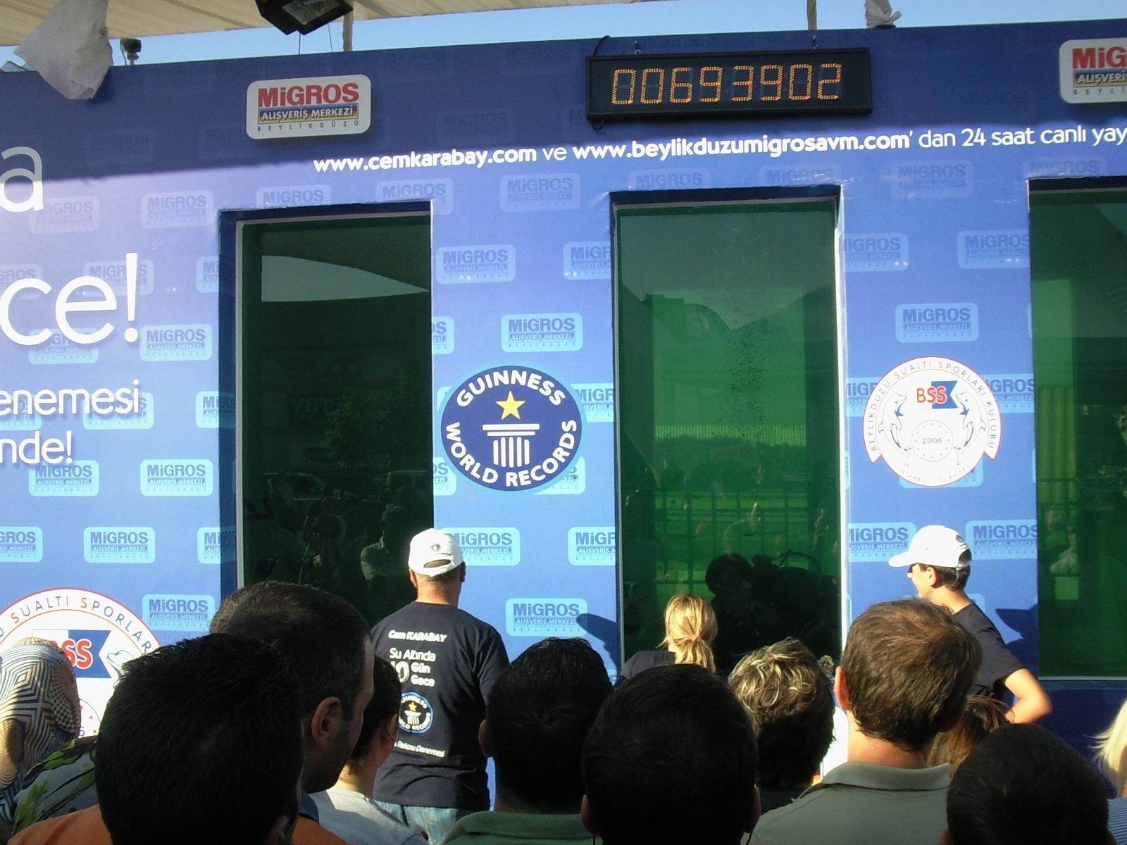 The longest scuba diving in a controlled environment attempt of Cem Karabay to enter in the Guinness Record Book.